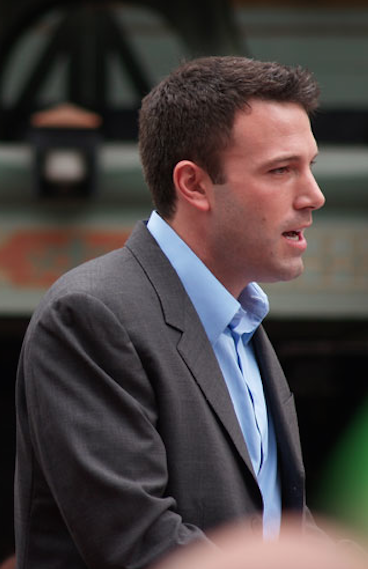 Affleck speaks in 2006 at Bruce Willis's Hollywood Walk of Fame ceremony